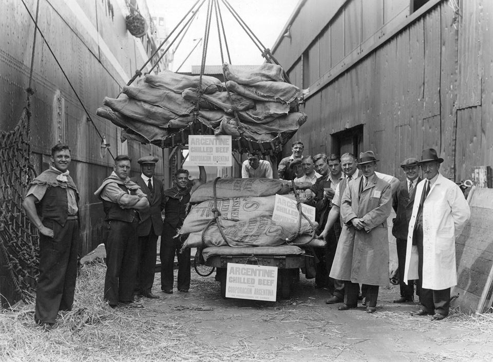 Workers of the port of London unloading "Argentine chilled beef". The meat had been dispatched from the Sansinena cold store of Buenos Aires.